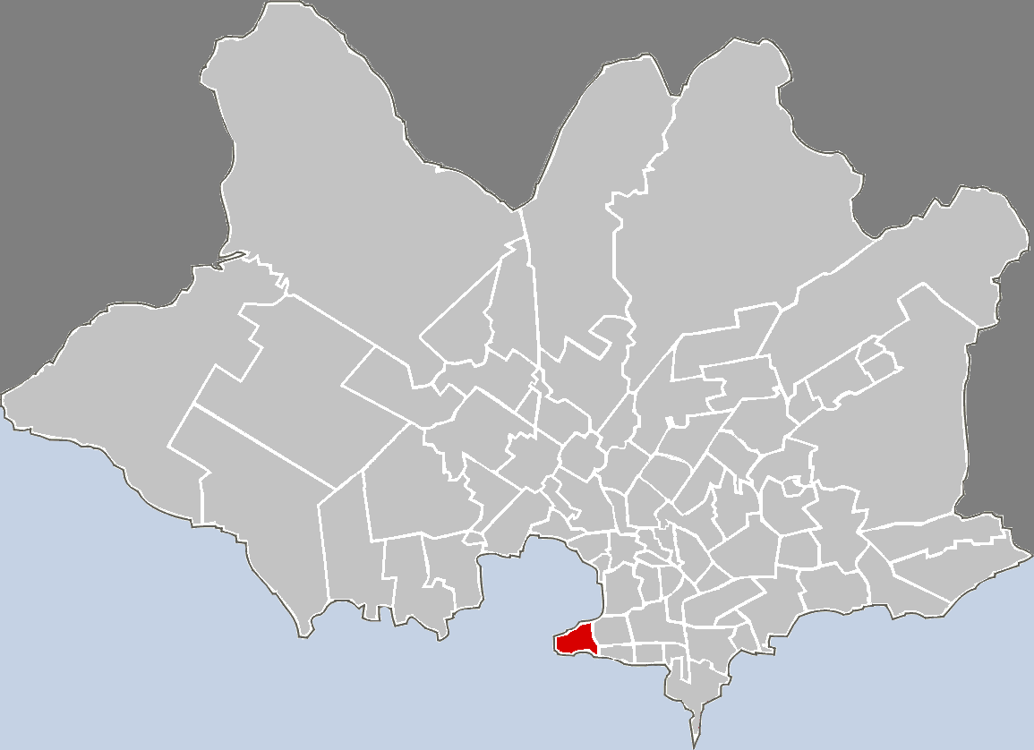 Map highlighting the given barrio in Montevideo.